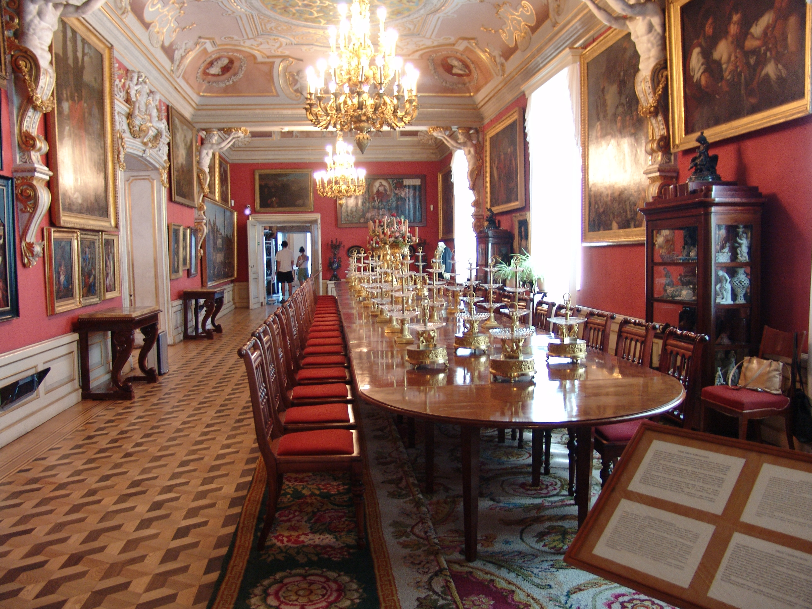 The dining room in the Wilanow castle in Warsaw, Poland